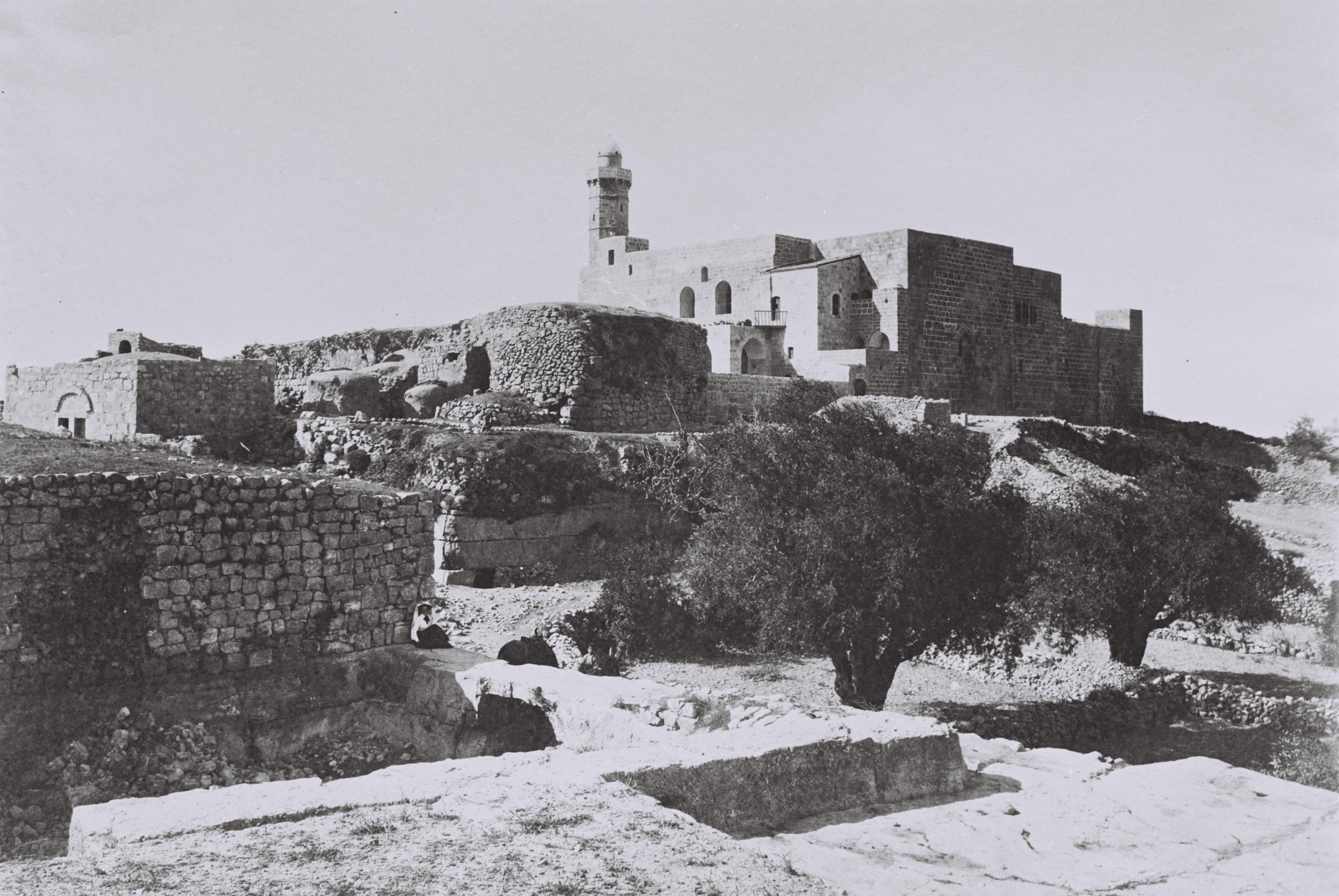 NEBI SAMUEL NEAR JERUSALEM, TRADITIONAL SITE OF THE GRAVE OF SAMUEL THE PROPHET. (COURTESY OF AMERICAN COLONY) נבי סמואל ליד ירושלים.